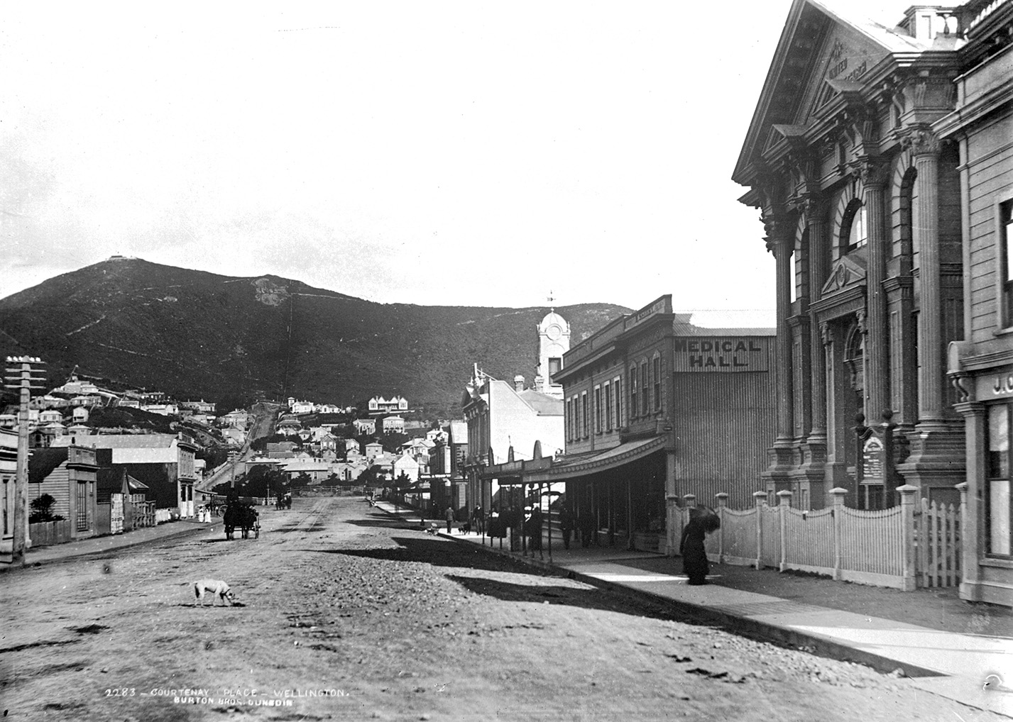 Courtenay Place, circa 1900View east towards Mt Victoria. On the right is Redstone's Church, Sheehy's Chemist, Linnell (painter), and the Albion Hotel (with the tower).